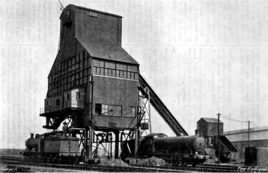 Dairycoates, Hull - electrically operated mechanical coaling plant Mechanical Coal Stage at Hull (13 Oct 1916).